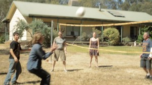 Some first year students playing volleyball in 2013